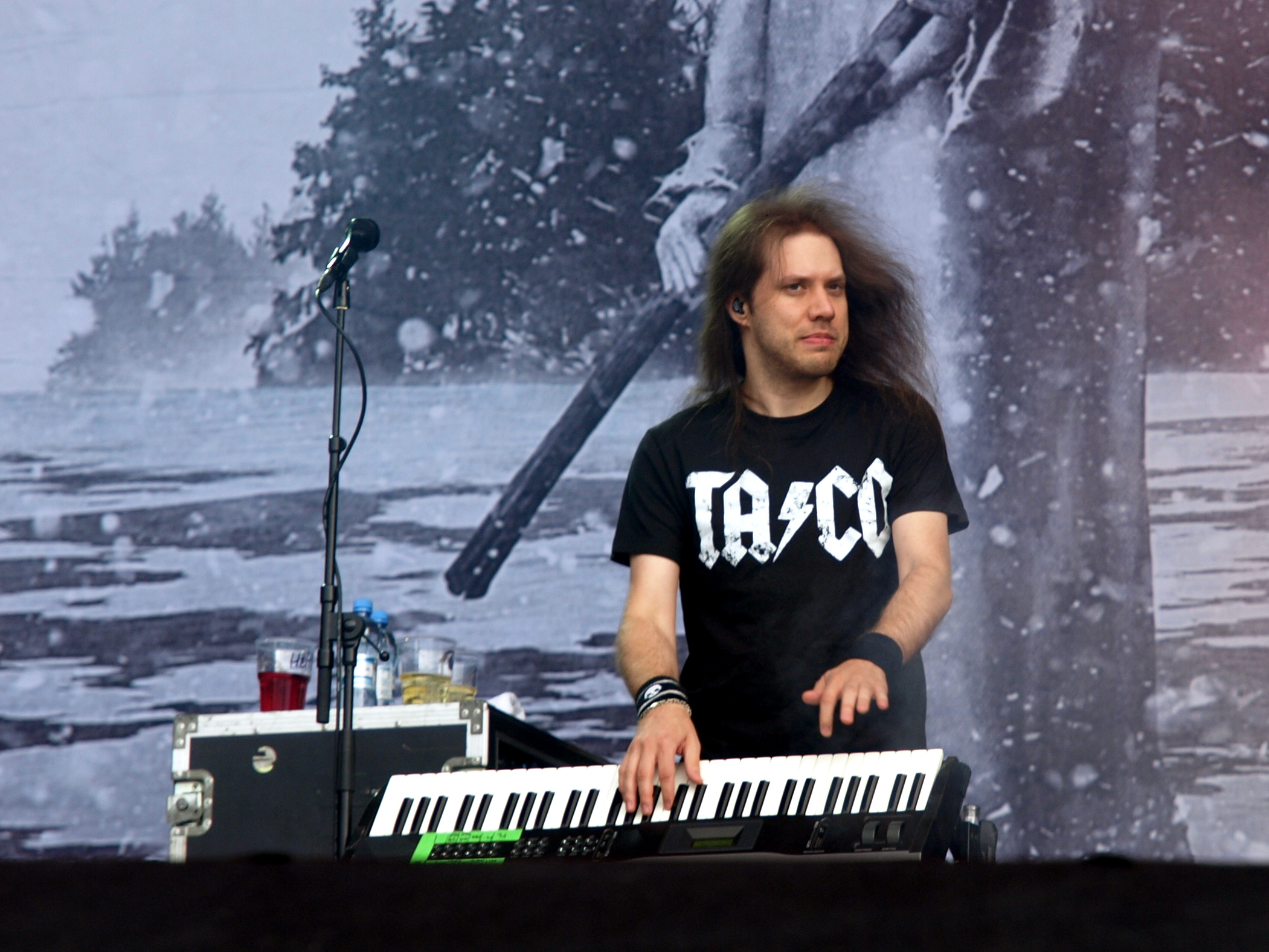 Finnish band Children of Bodom live at Provinssirock 2013